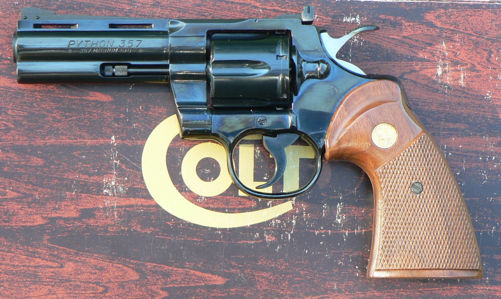 Colt Python, .357 Magnum, 4" barrel, Royal Blue finish